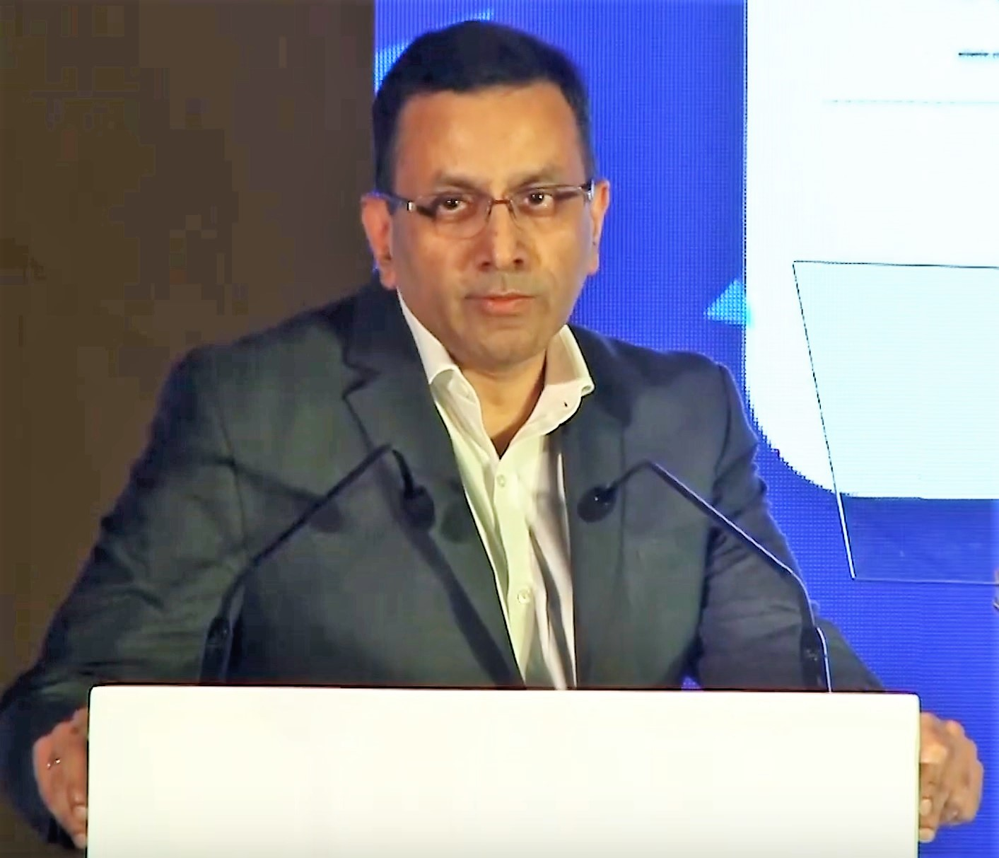 Influencer of the Year - Sanjay Gupta, Country Manager, Star & Disney India receives an award at an event of exchange4media. @e4mtweets @IMPACT_onnet @MagazinePitch